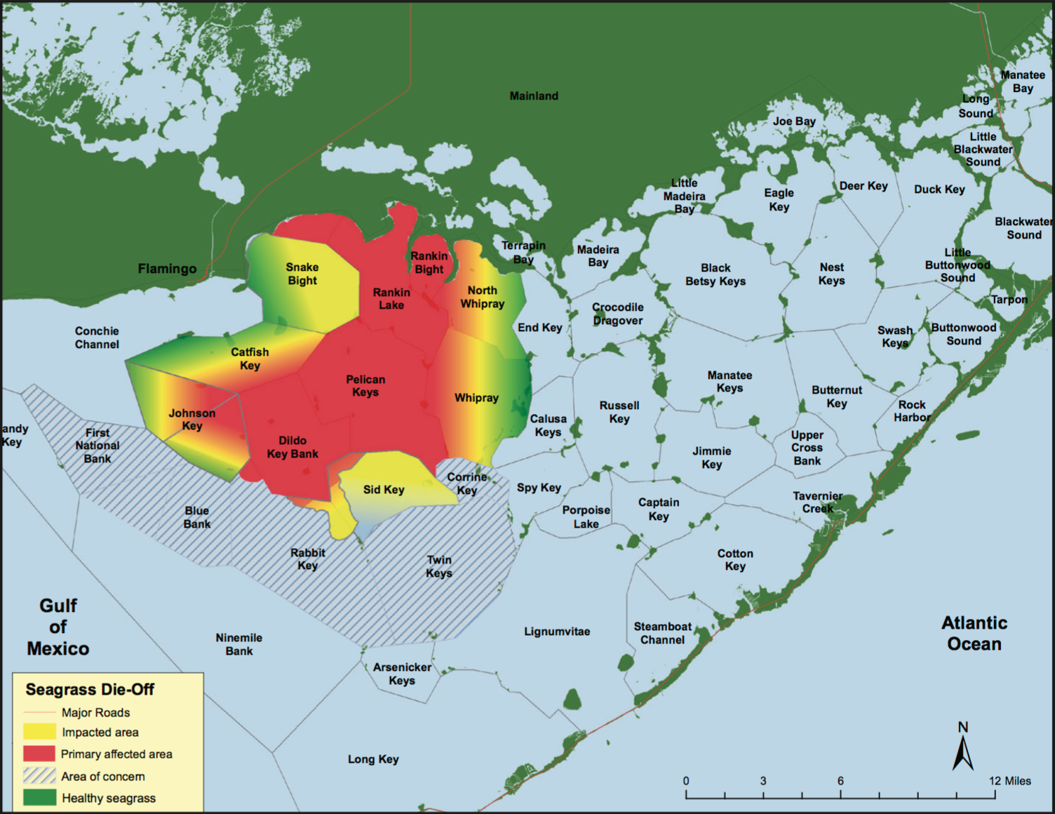 Area of Florida Bay turtle grass die-off event in July 2015 through February 2016. Red = area containing dead turtle grass in patches of varying size; not 100% dead. Yellow = mixed live/dead impacted areas. Green = healthy turtle grass. Striped area = dense seagrass most at risk of die-off expansion.